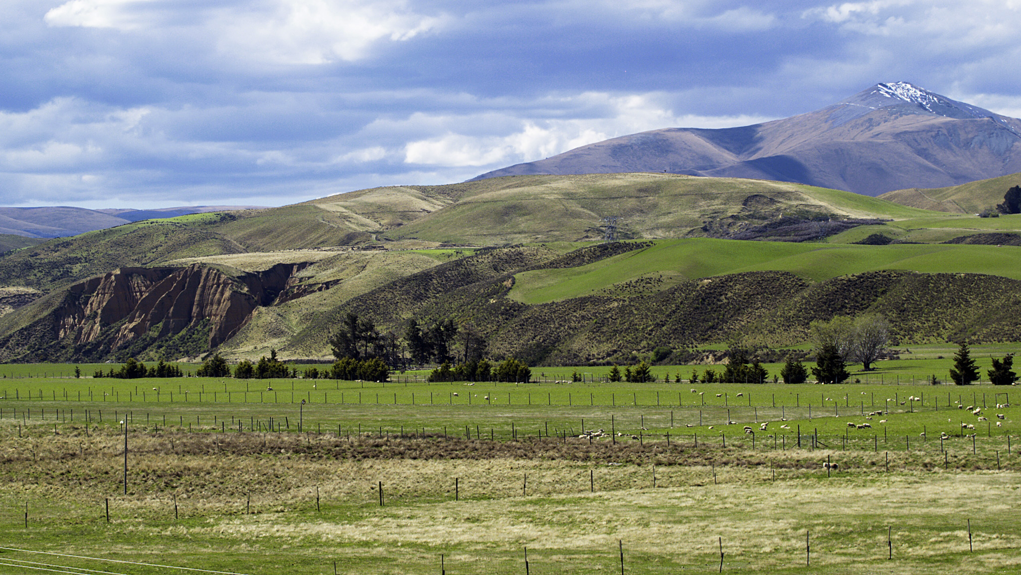 Maniototo Plain with Ida Range, Otago, New Zealand (cut)